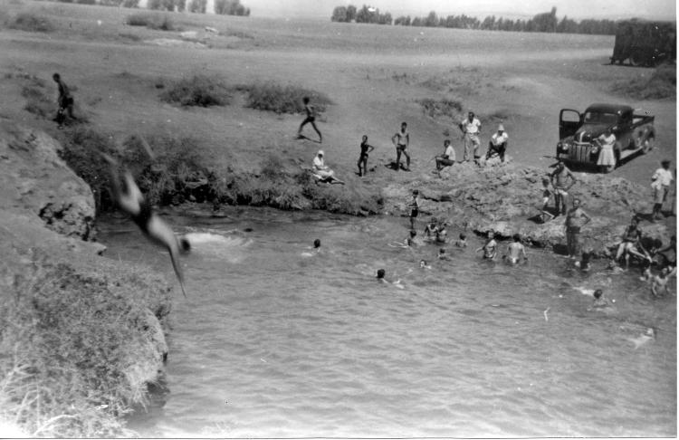 Members of the Palmach swimming in the pool that supplied Sakhnin with water. 1947